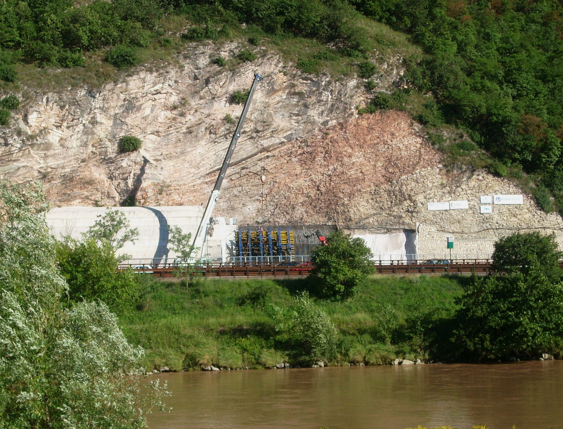 The tunnel of Chiusole (Province of Trento, North Italy) under costruction